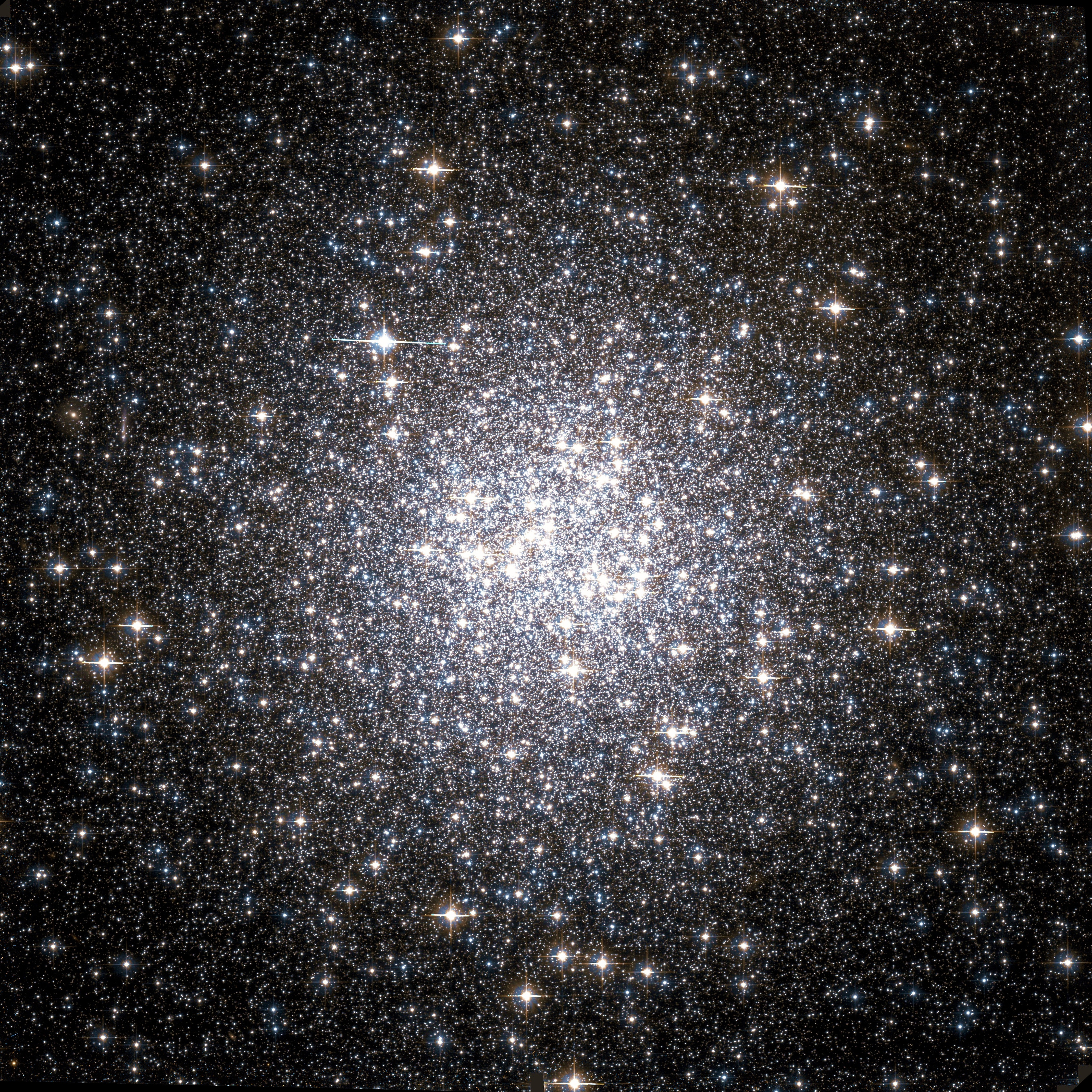 Messier 53 globular cluster by Hubble Space Telescope; 3.5′ view